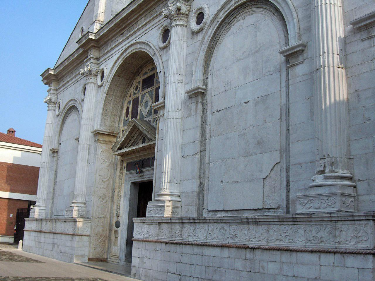 Doorway of the Malatesta Temple by Leon Battista Alberti; Rimini, Italy.